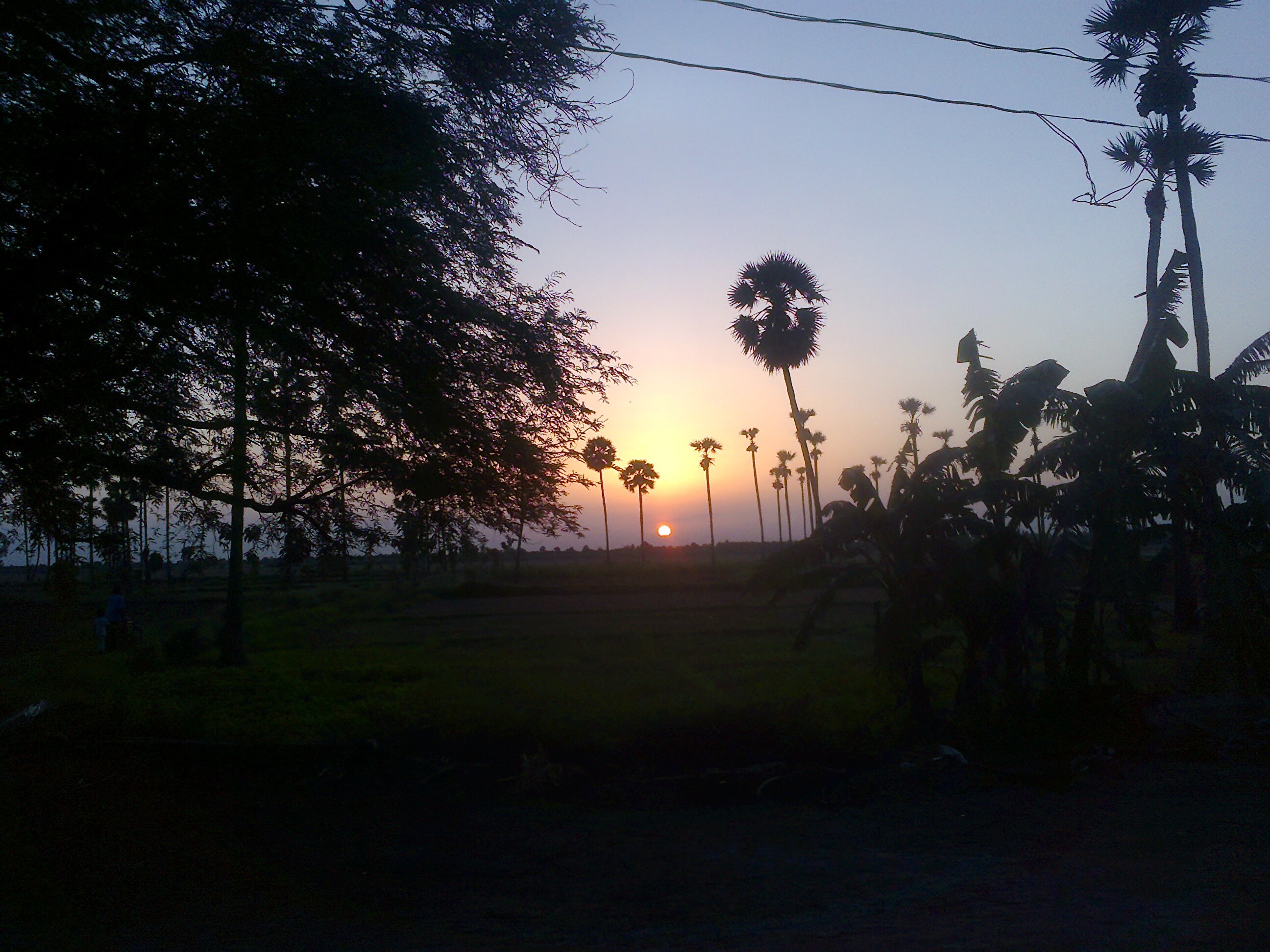 sunset at Pinakini satygraha Aasram near penna river